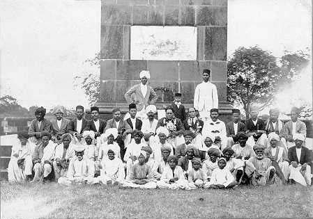 Dr. Babasaheb Ambedkar and his followers at 'Vijaystambha', Bhima-Koregaon, Tal. Haveli, Pune (Maharashtra) to salute to the brave Mahar Regiment's soldiers who won the battle. Dr. Babasaheb Ambedkar used to visit Bhima Koregaon every year on 1st January to pay homage to the untouchable soldiers and to exhort Dalits to show similar courage and determination to end brahminism from the entire country.